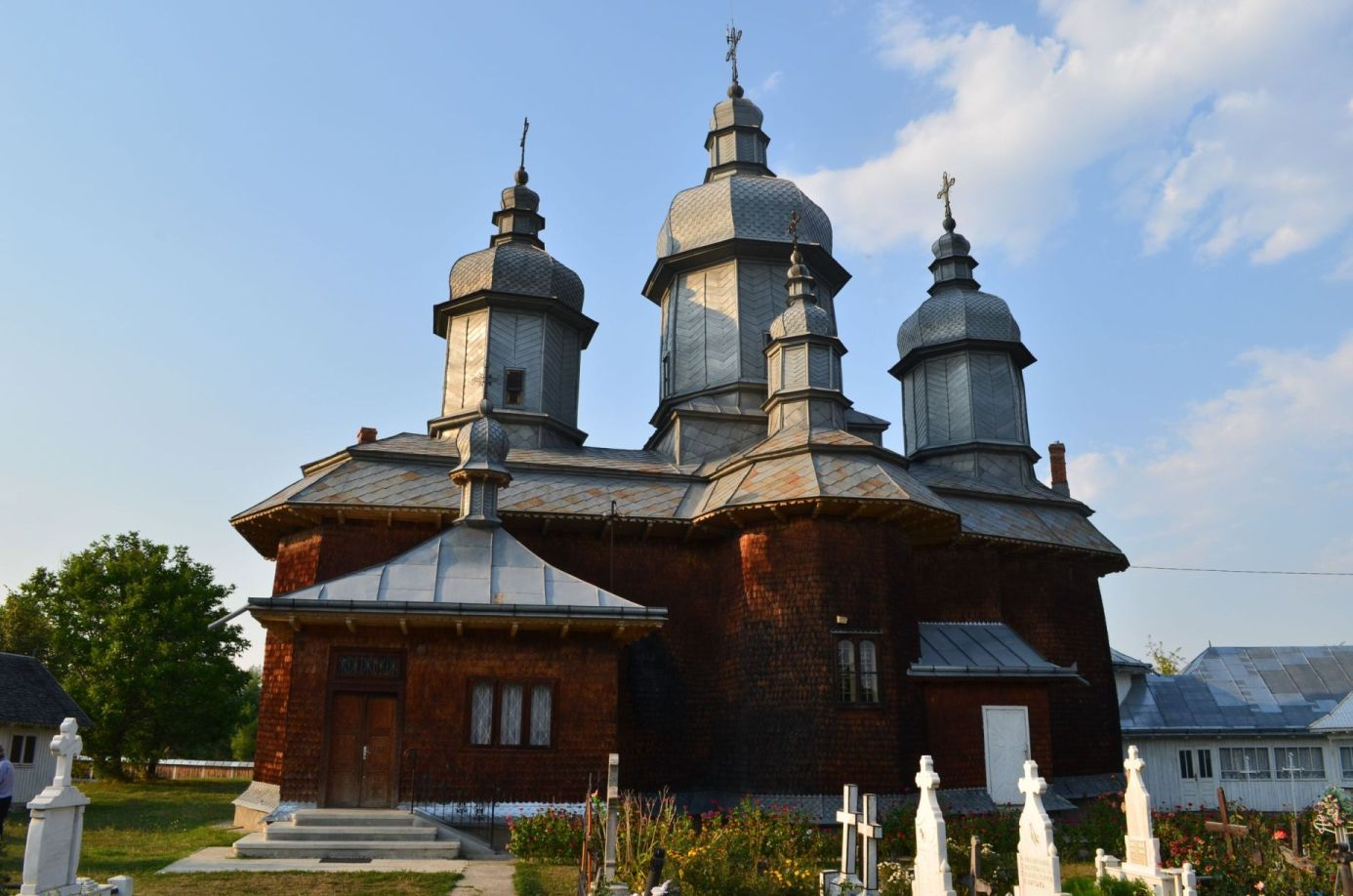 Biserica de lemn din Topolita